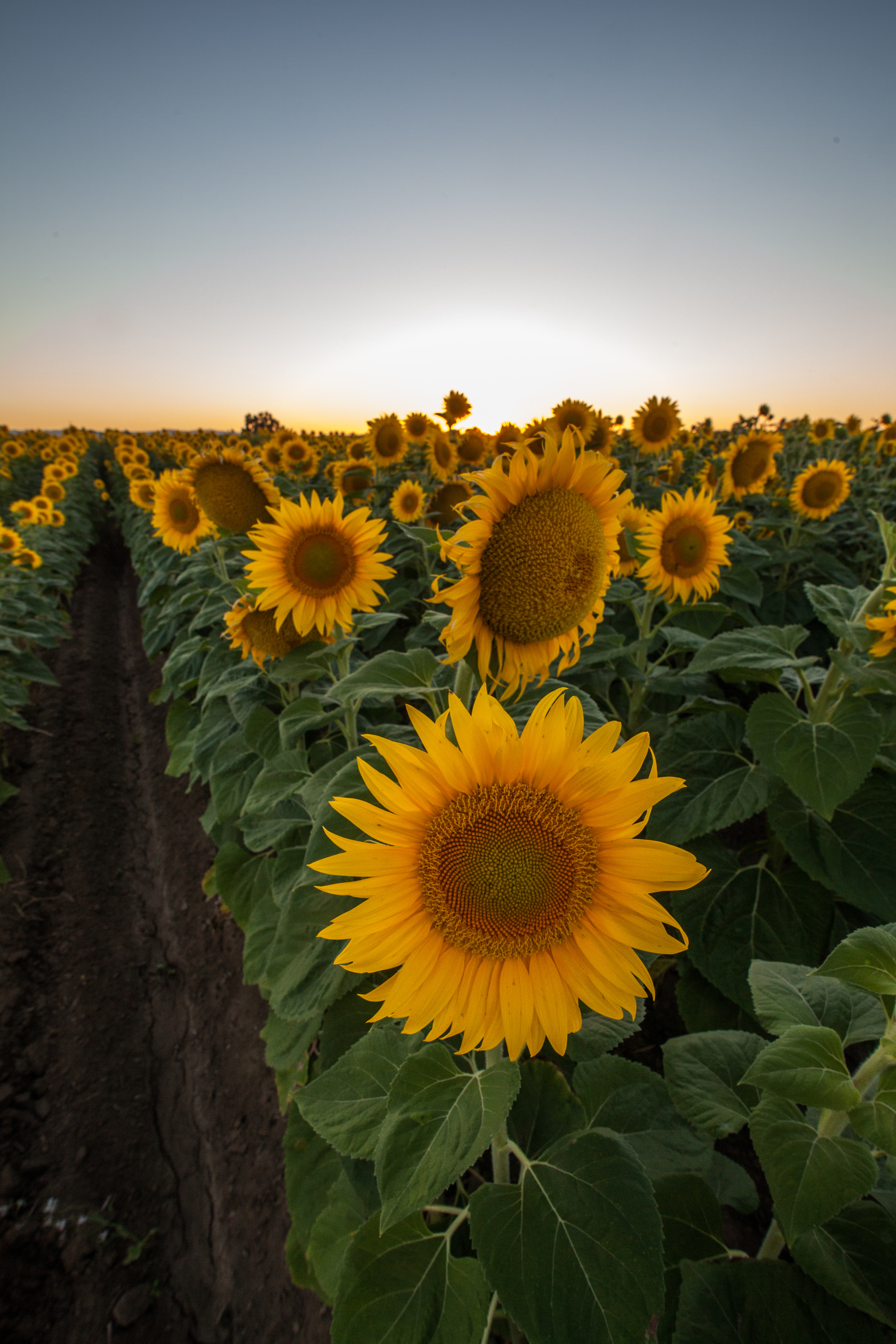 Land of the Sun